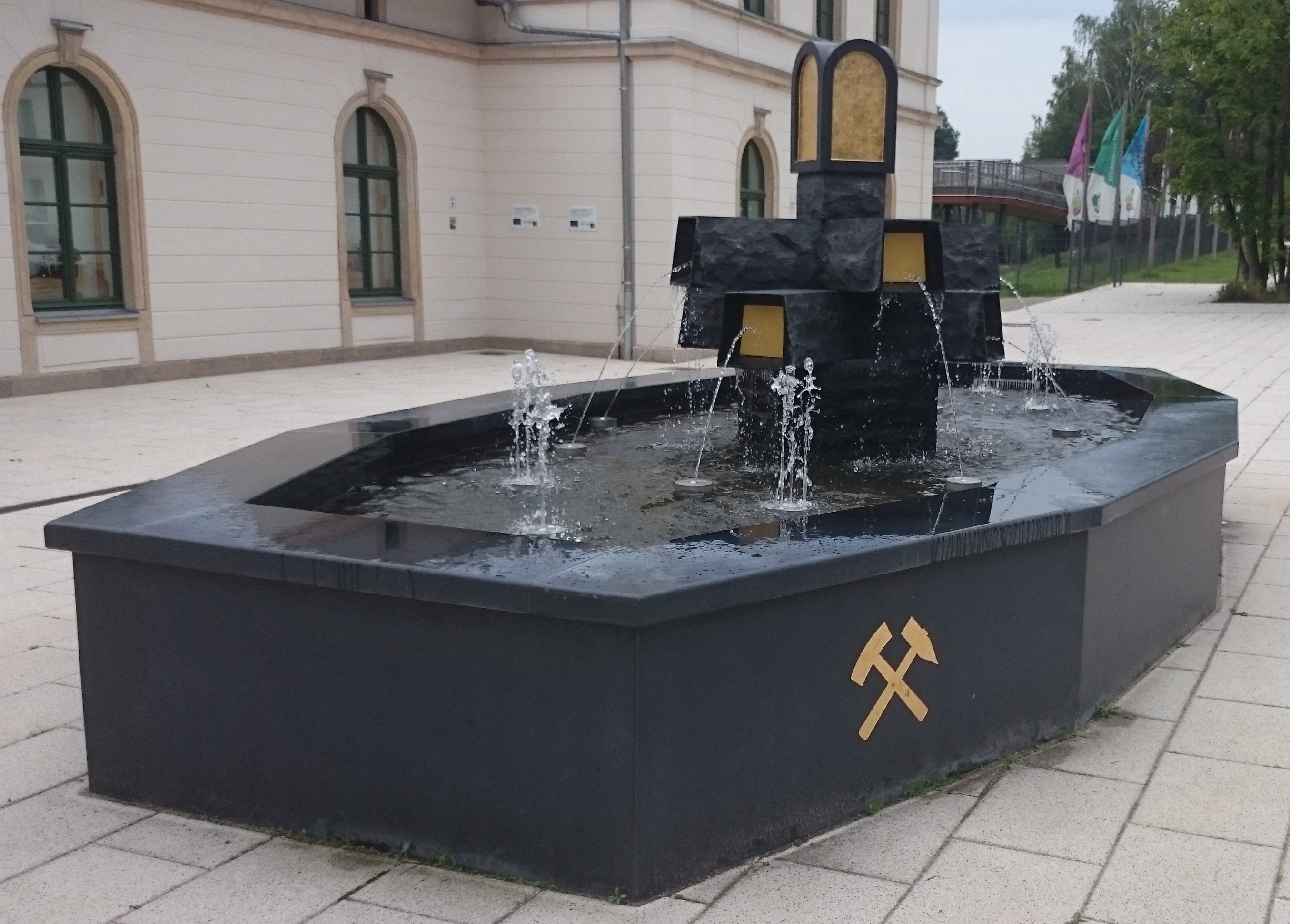 Fountain „Schwarzes Gold“ (black gold) in Oelsnitz/Erzgeb.